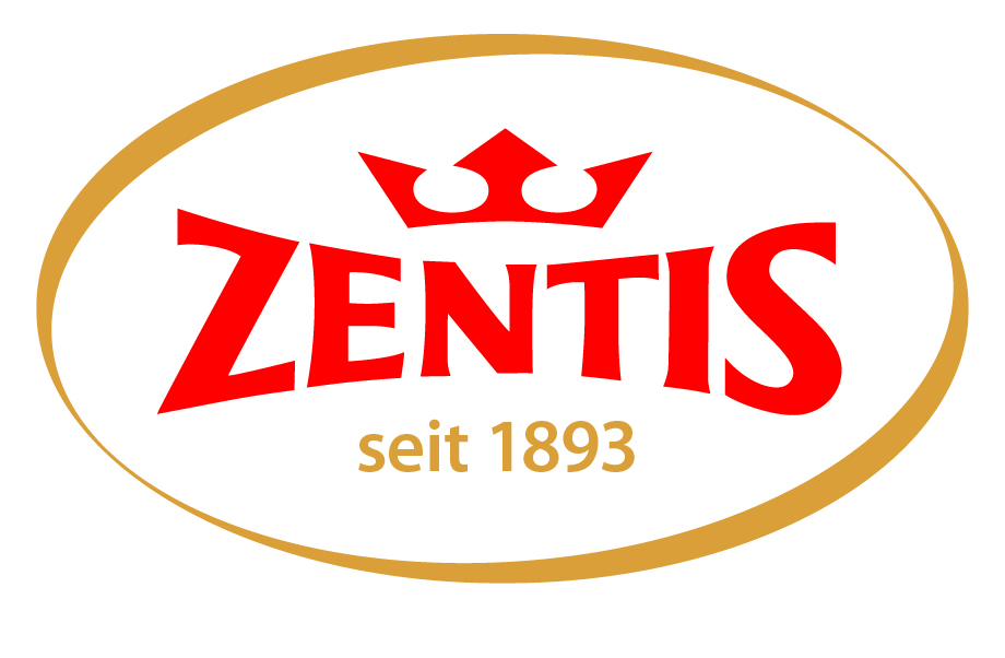 Company Logo Zentis